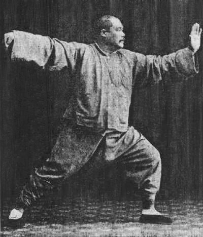 The Tai chi master Yang Chengfu demonstrating the Single whip.